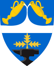 Small Coat of Arms of the city and municipality of Mladenovac in Belgrade, Serbia